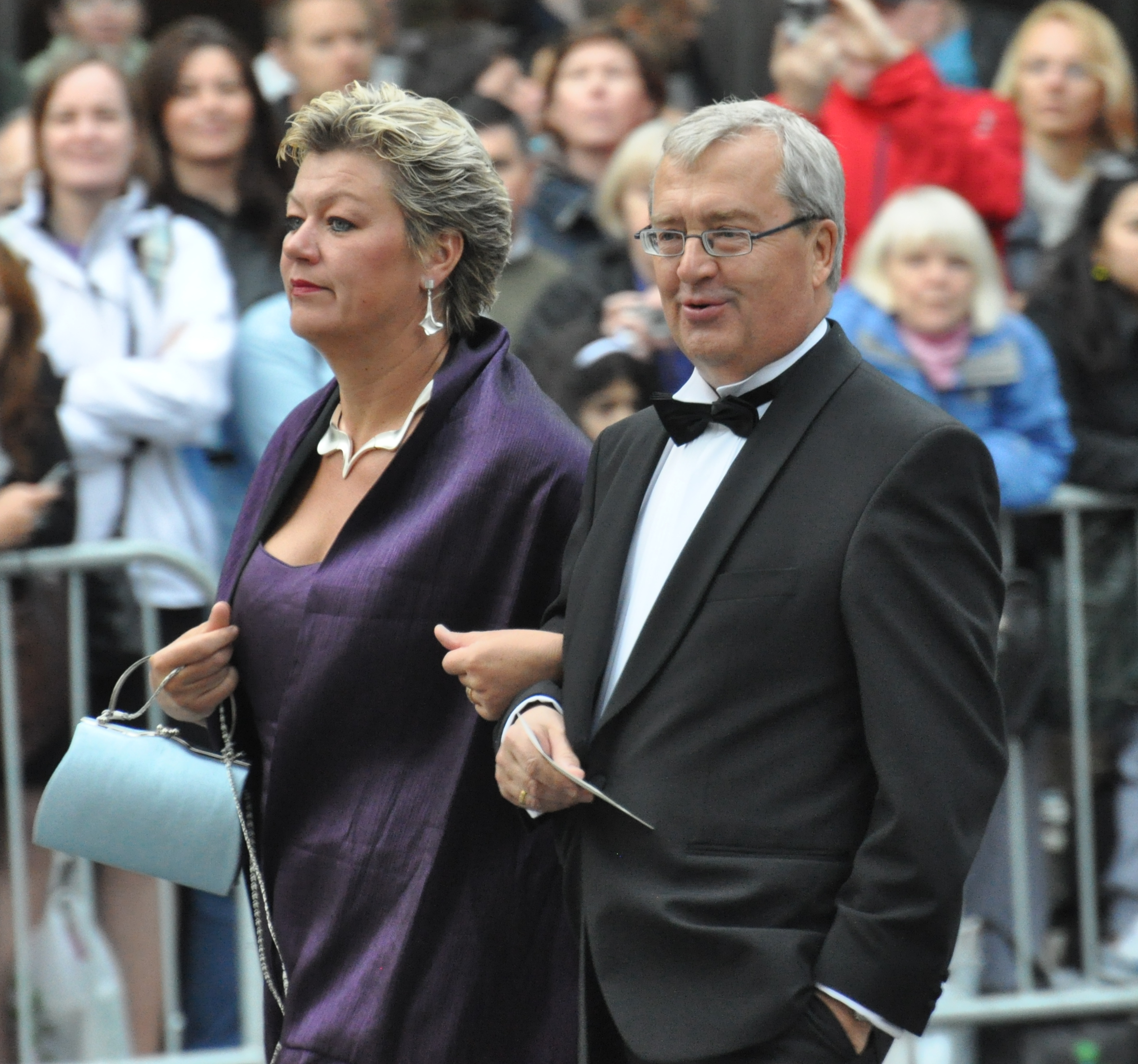 Wedding of Victoria, Crown Princess of Sweden, and Daniel Westling; Arrival of members for the Gouvernment and Swedish and foreign guests of hounour to the Riksdag's Gala Performance at Konserthuset